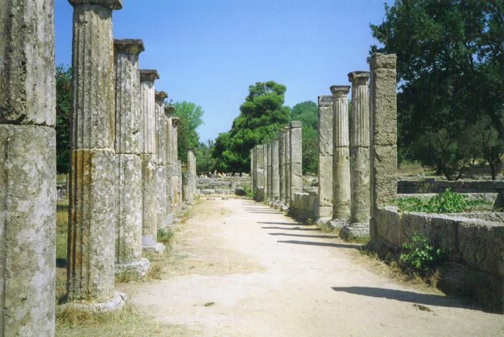 Olympia, site of the ancient Olympic Games Author: (WT-en) Skyduster Located in the Peloponnese region, Olympia was the city that hosted the Olympic Games of antiquity, held every four years in honor of the Olympian Gods. Athletes came from all over to participate in the most important sporting event of the Greek world. During the Olympiad, Olympia also hosted a variety of cultural events which also held significant importance and prestige.